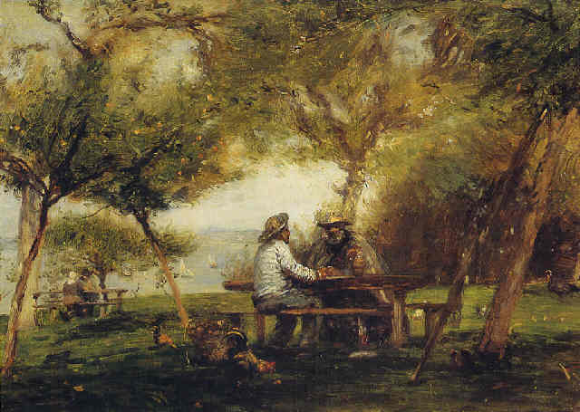 Sailers in Saint-Siméon.